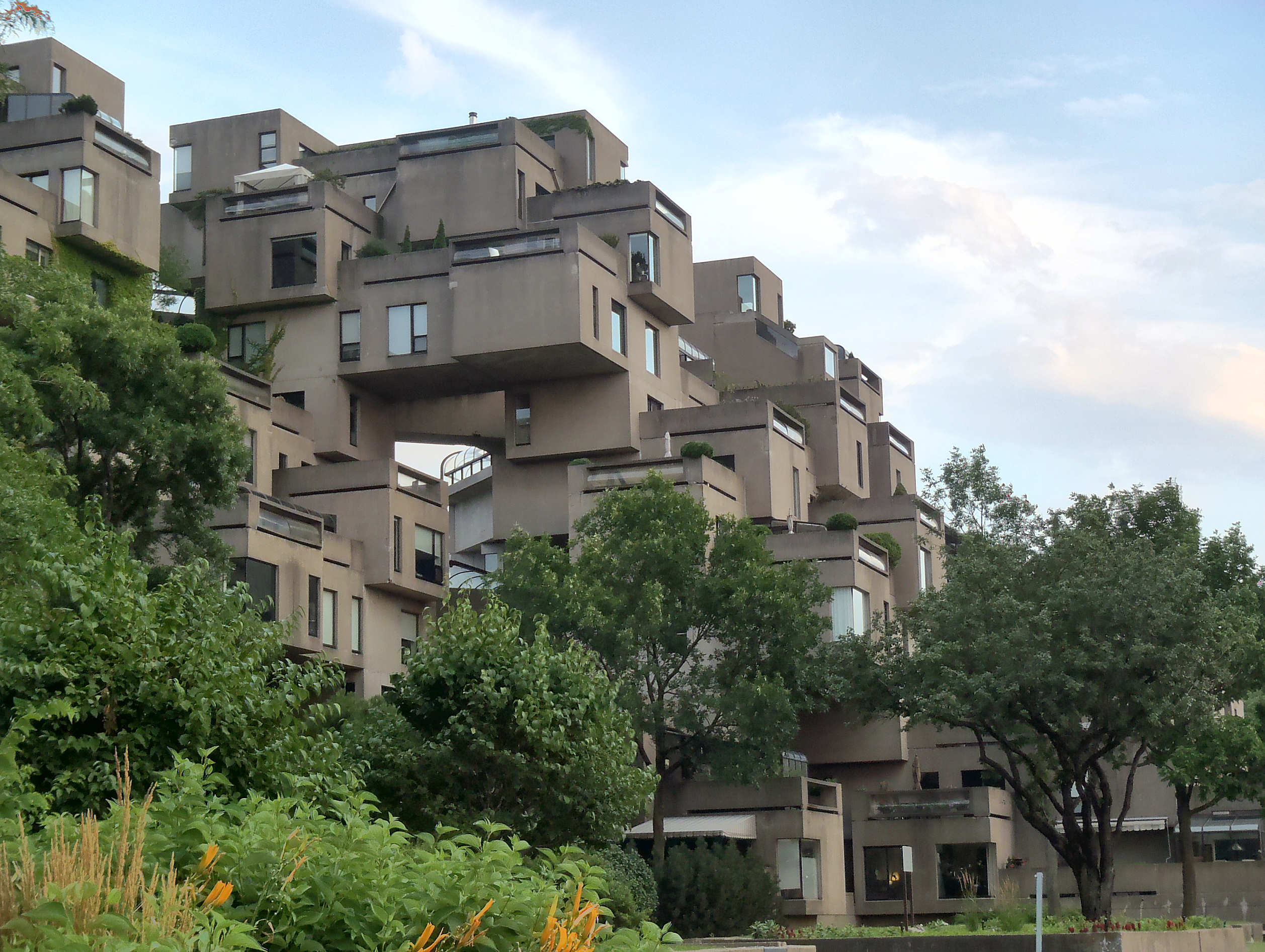 Habitat 67